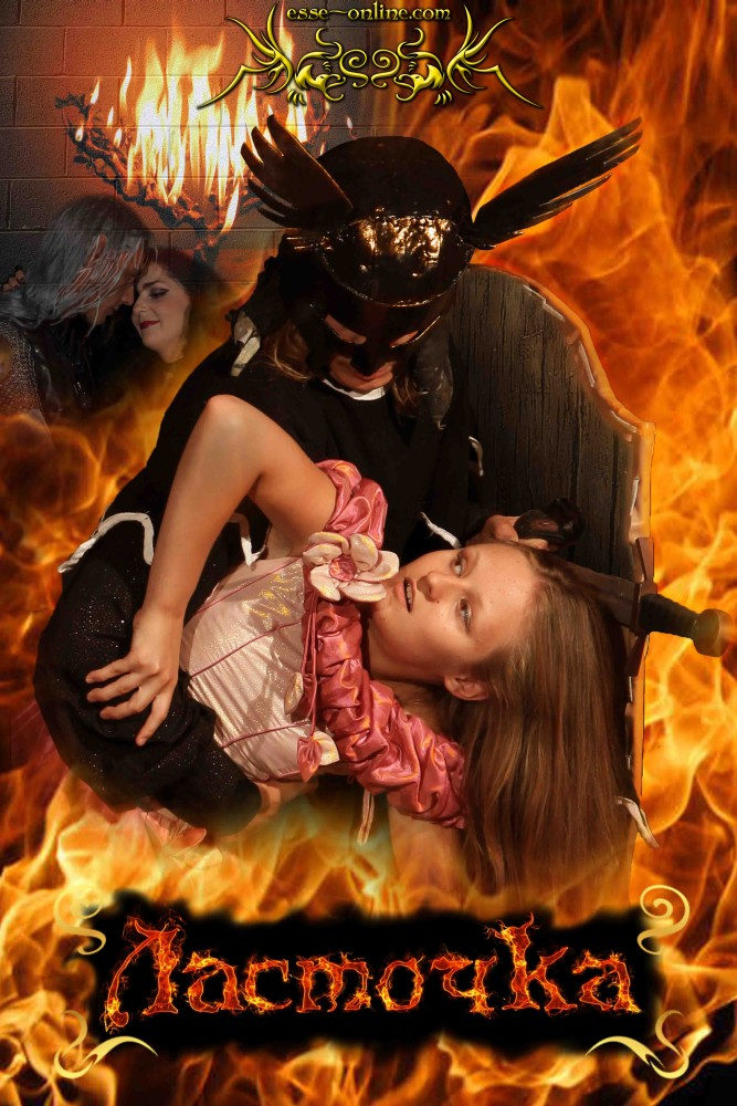 "Swallow". Fantasy rock musical of group "ESSE" -"The Road with No Return", based on the saga of A. Sapkowski "The Witcher". Official poster. Scene 2. Symphonic rock-group "ESSE". Darya Pronina (Cirilla Fiona Elen Riannon' (Ciri or the Lion Cub of Cintra), Zireael. Swallow), Denis Lipnitsky (Cahir Mawr Dyffryn aep Ceallach), Lyudmila Dymkova (Yennefer of Vengerberg), Vyacheslav Mayer (Geralt of Rivia, Witcher, Gwynbleidd, Vatt’ghern). (Poster - Anastasia Vorotnikova. Photo - Yuri Osadchy.)